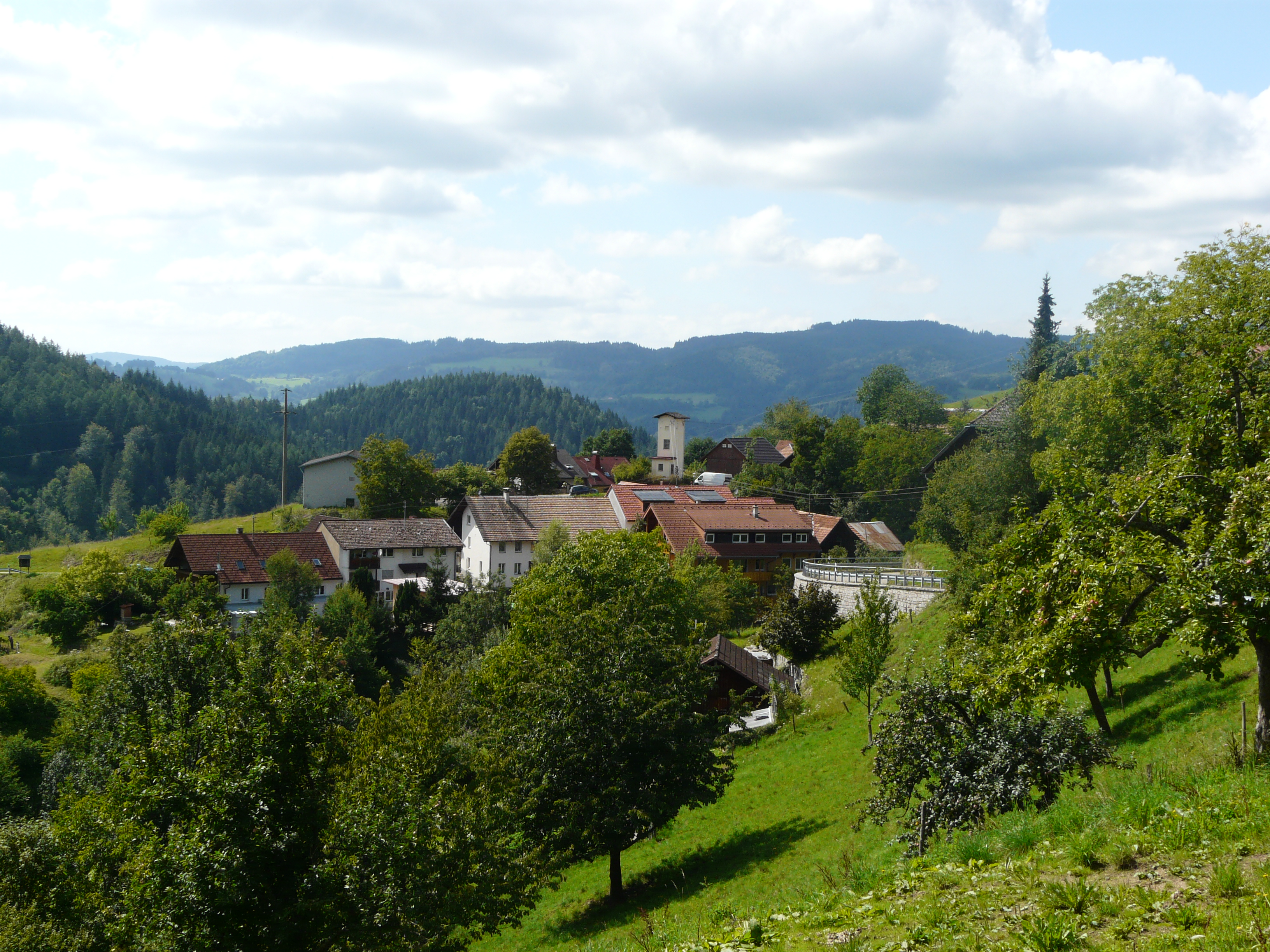 Riedichen, part of Zell im Wiesental